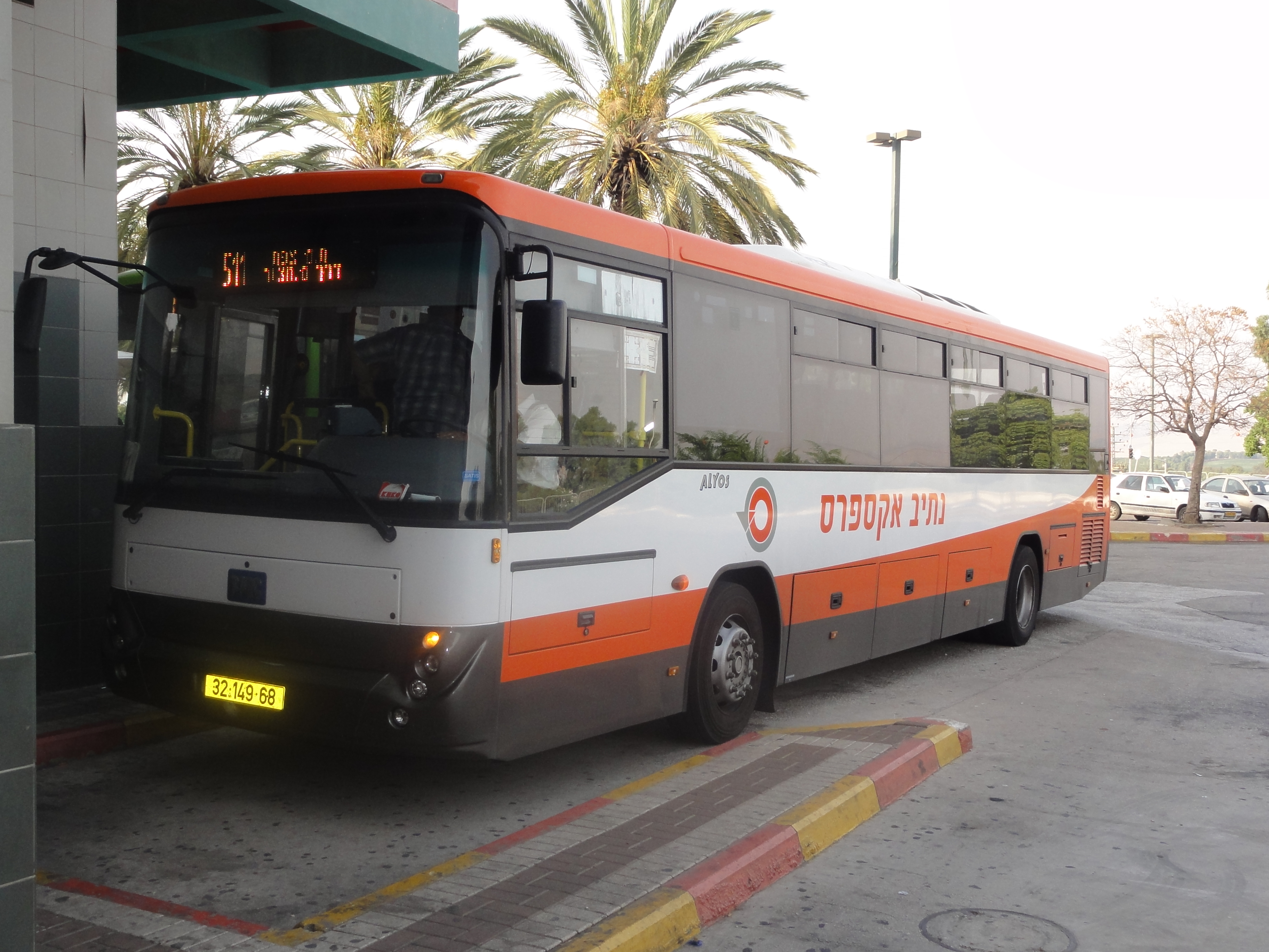 BMC Alyos bus (reg. 32 149 68) No. 511 of an unidentified company in Hatzor HaGlilit, Israel. Nativ Express operator.